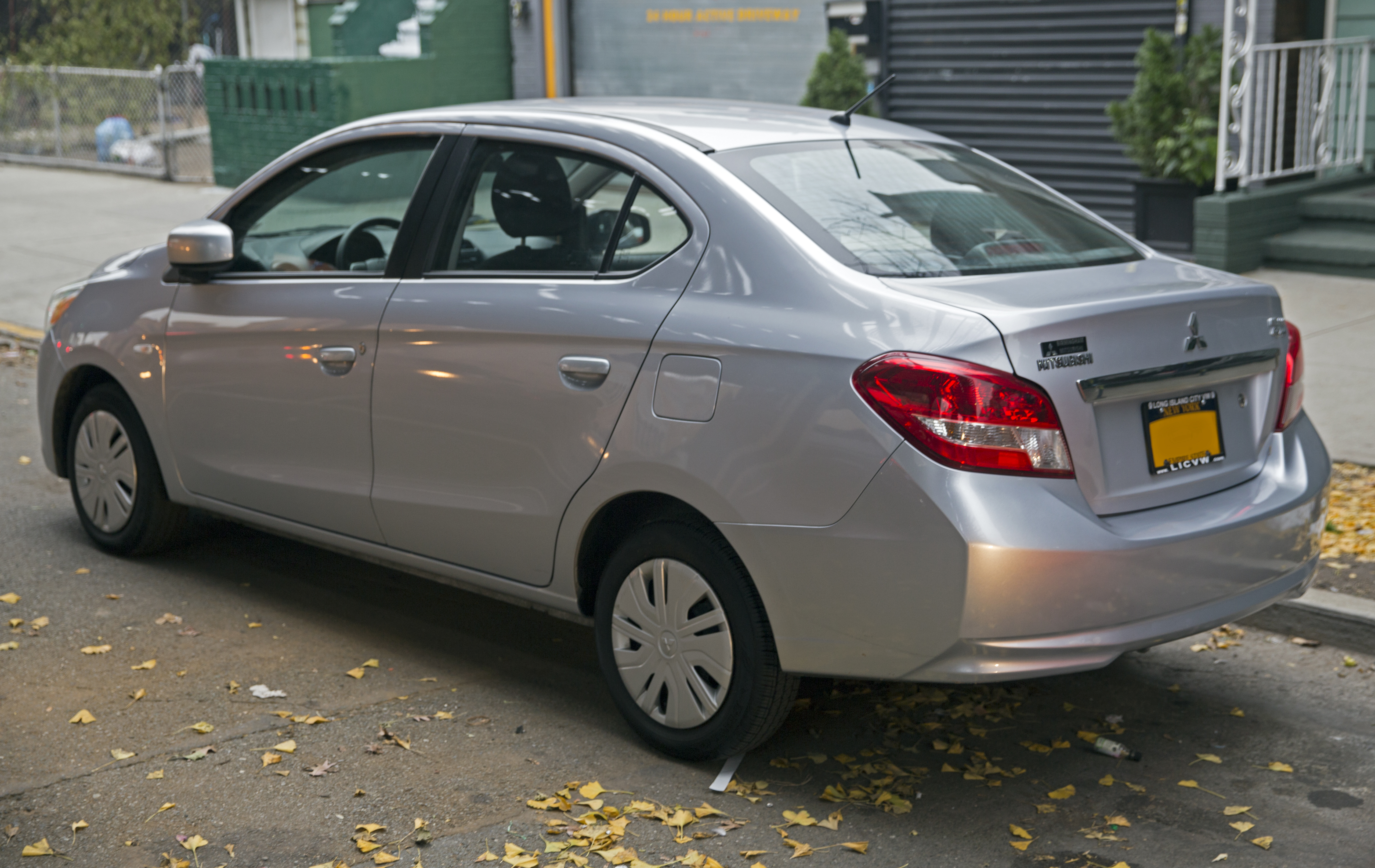 2017 Mitsubishi Mirage G4 ES CVT FWD ES 4dr Sedan in silver. Recently sold with about 50K miles on it; so nearing the end of its life on NYC's war-torn roads.